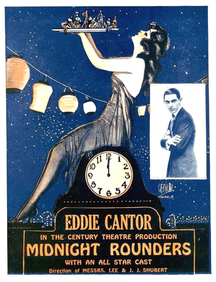 Theatricla flyer for the show "Midnight Rounders" with Eddie Cantor. The flyer was prepared for the tour the show made outside of New York.